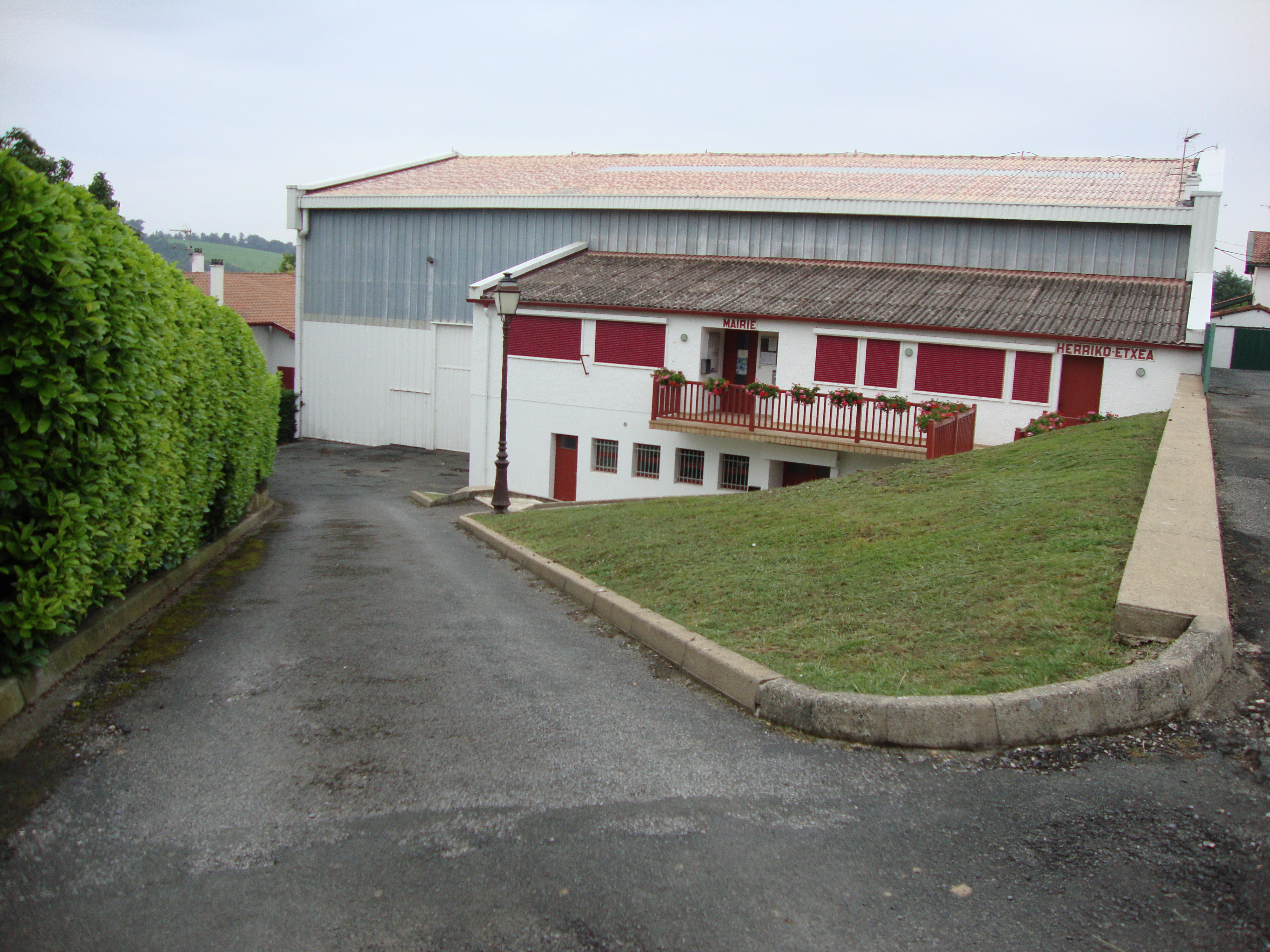 Beyrie-sur-Joyeuse (Pyr-Atl, Fr) town hall.